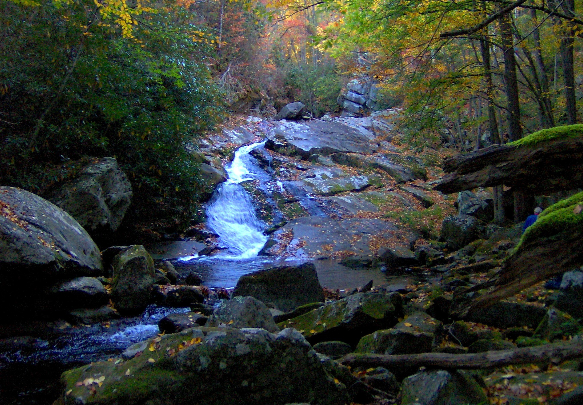 A small waterfall along Lynn Camp Prong in the Great Smoky Mountains of East Tennessee. Lynn Camp Prong drains the upper eastern half of the Tremont area and is part of the Little River watershed.